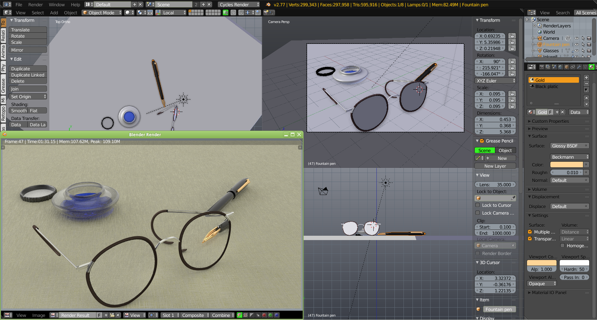 3D models created and rendered in Blender 2.77